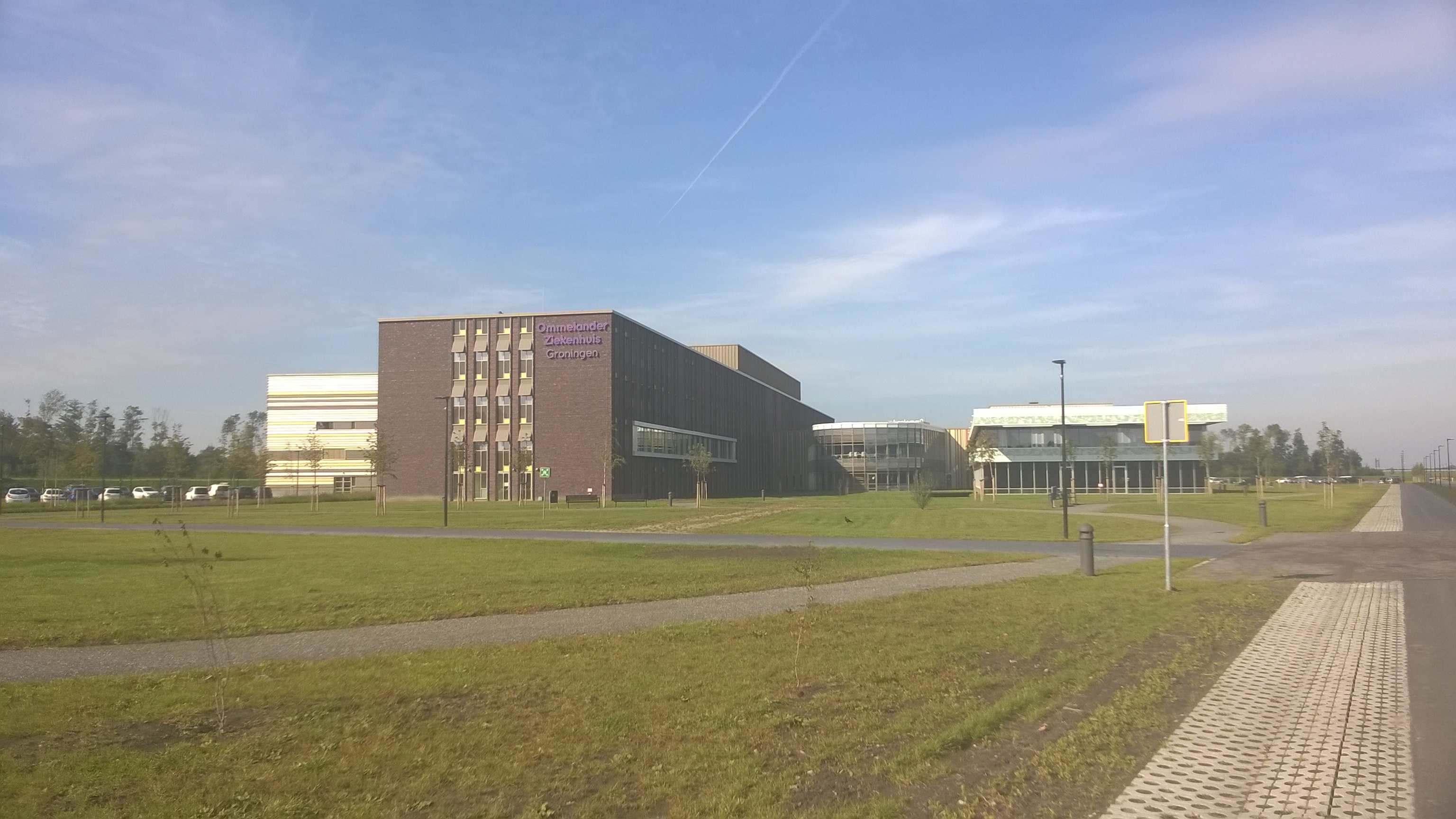 The local hospital of the Eastern regions of the Province of Groningen situated in the Groninger village of Scheemda, Oldambt.